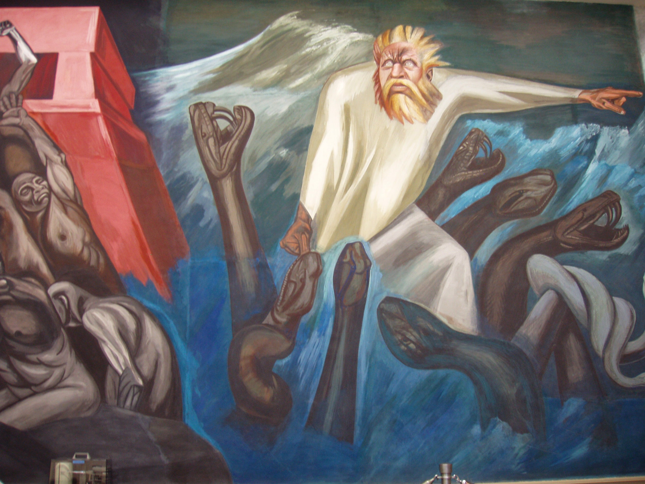 Detail of mural by José Clemente Orozco at Baker Library, Dartmouth College, Hanover, New Hampshire. Photograph taken by me, October 2005. Category:Dartmouth College